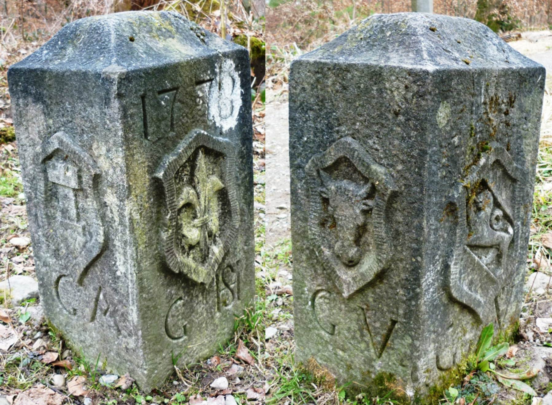 Landmark of four boroughs of 1778, Altstetten-Schlieren-Urdorf-Uitikon ZH, Switzerland Viergemeindenstein von 1778, Altstetten-Schlieren-Urdorf-Uitikon ZH